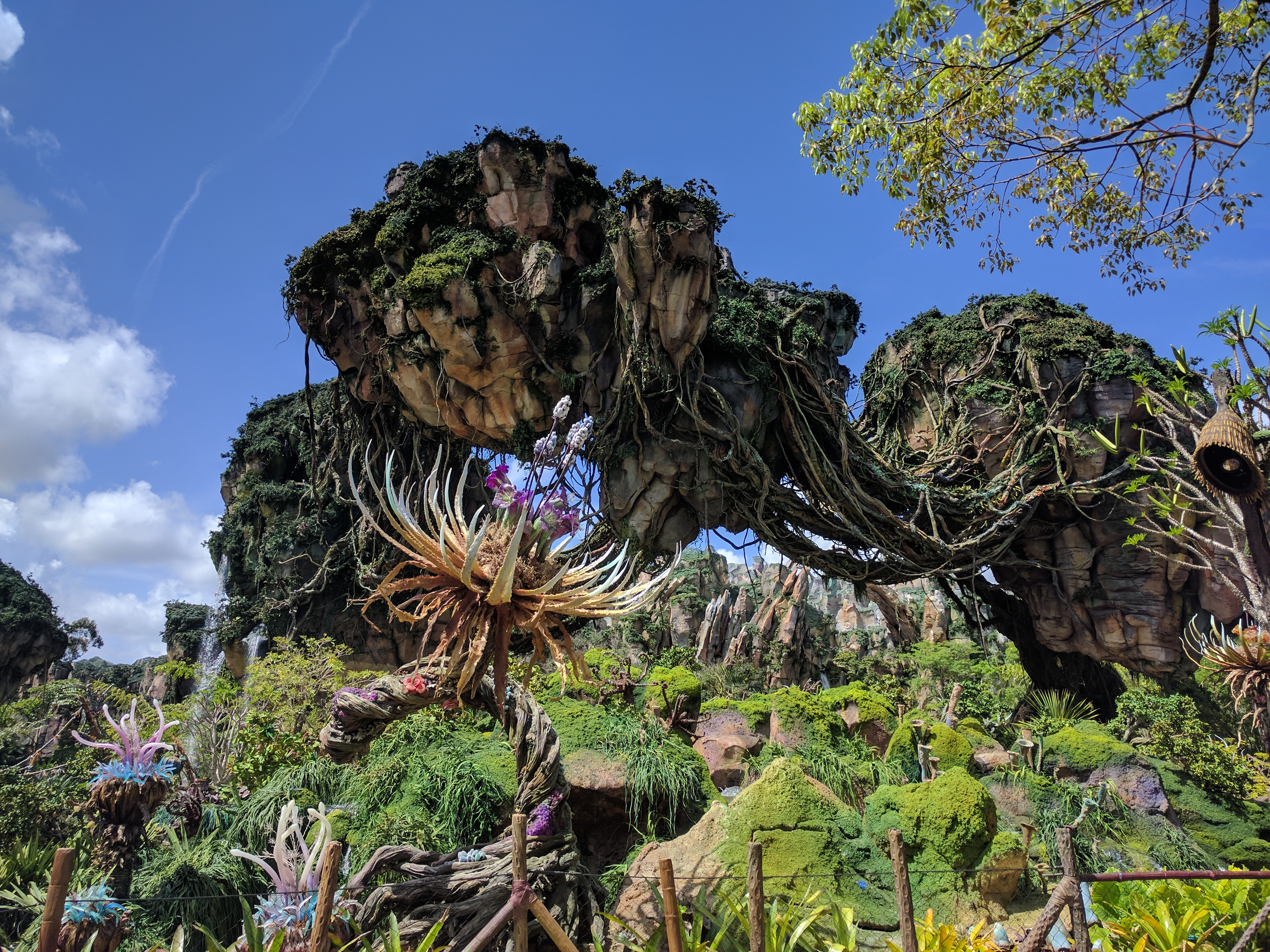 Cast Pongu (Party) at Pandora-The World of Avatar